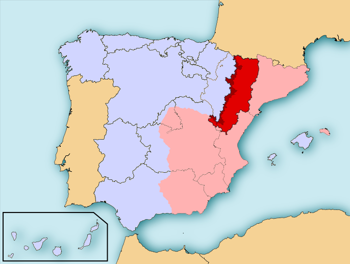 Map of the Regional Council of Defense of Aragon